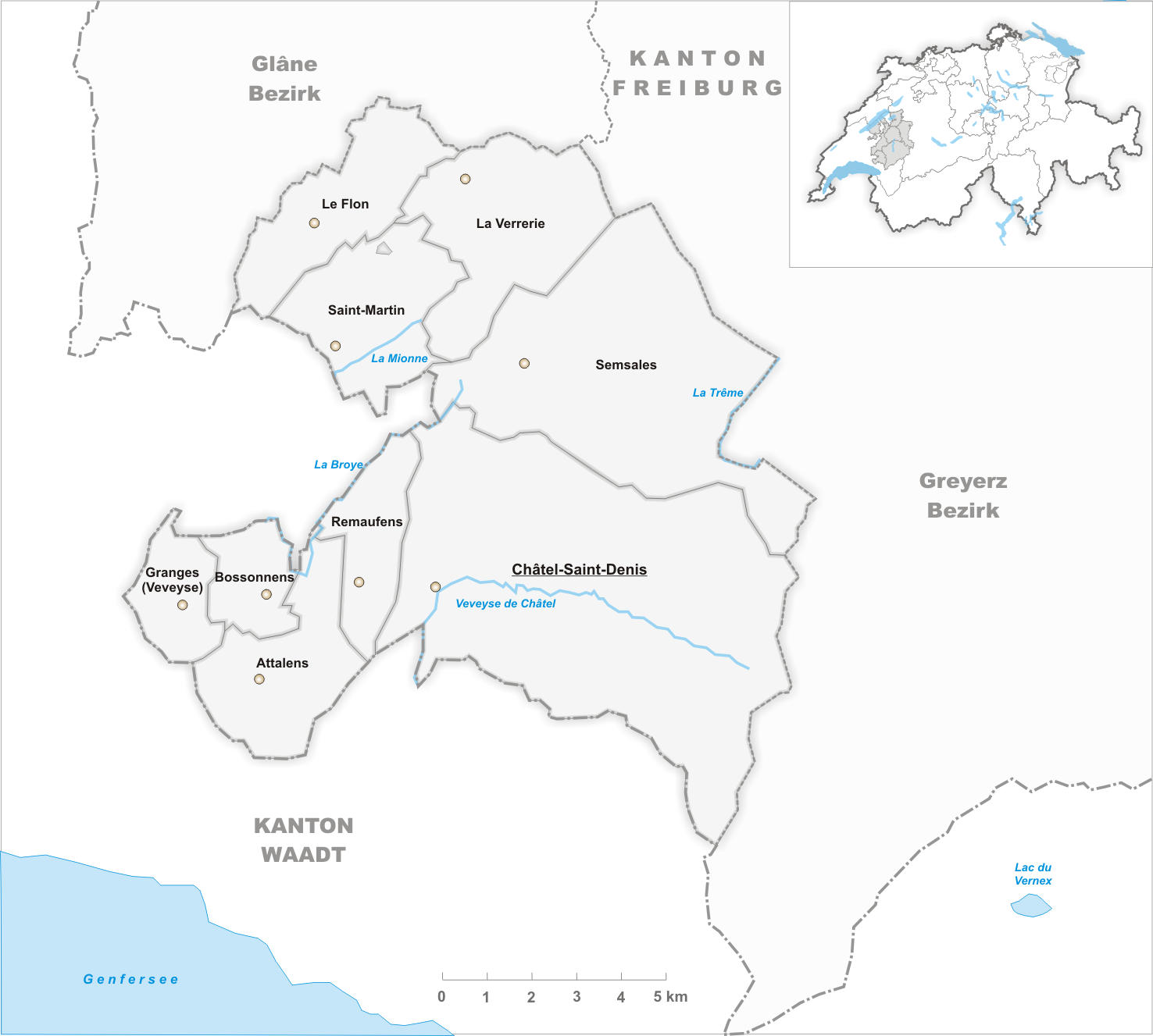 Municipality in the District of Vivisbach Artist: Tschubby